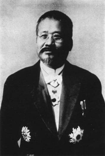 Yaichi Haga (taken in commemoration of the conferment of the Order of the Rising Sun in 2 September 1920).